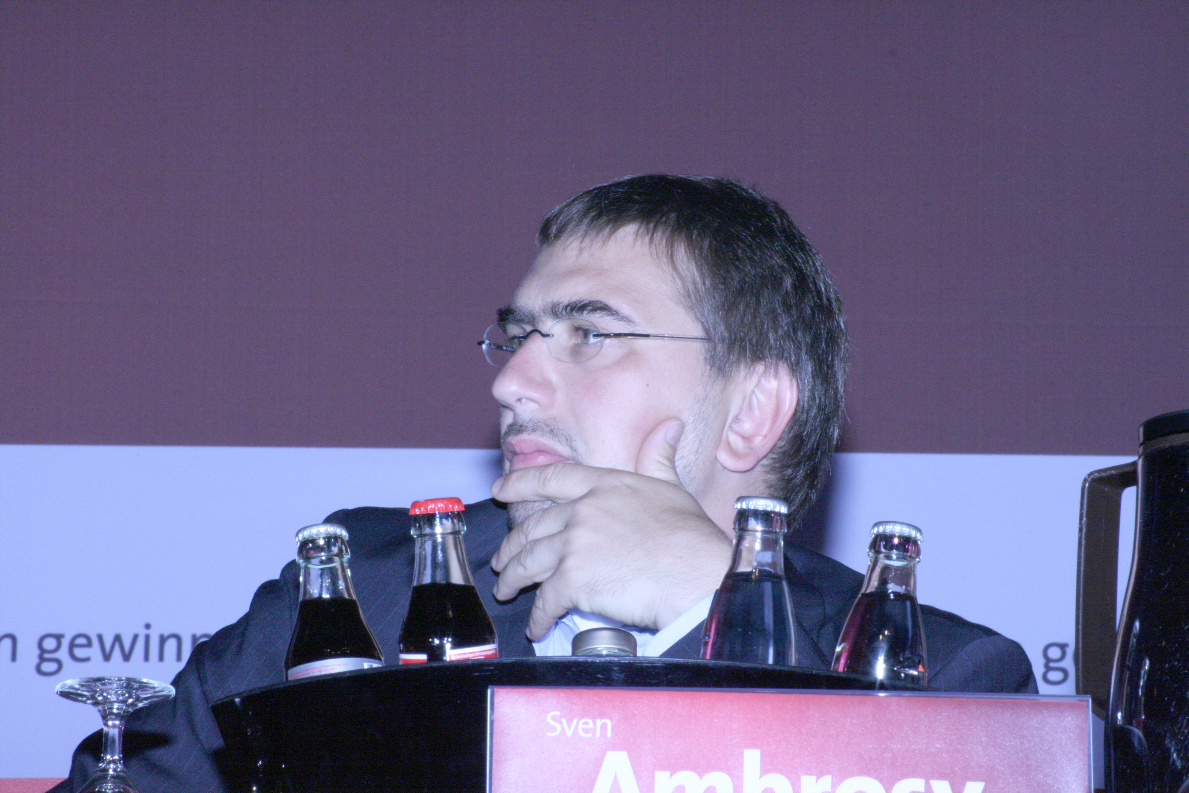 Sven Ambrosy, German SPD politician